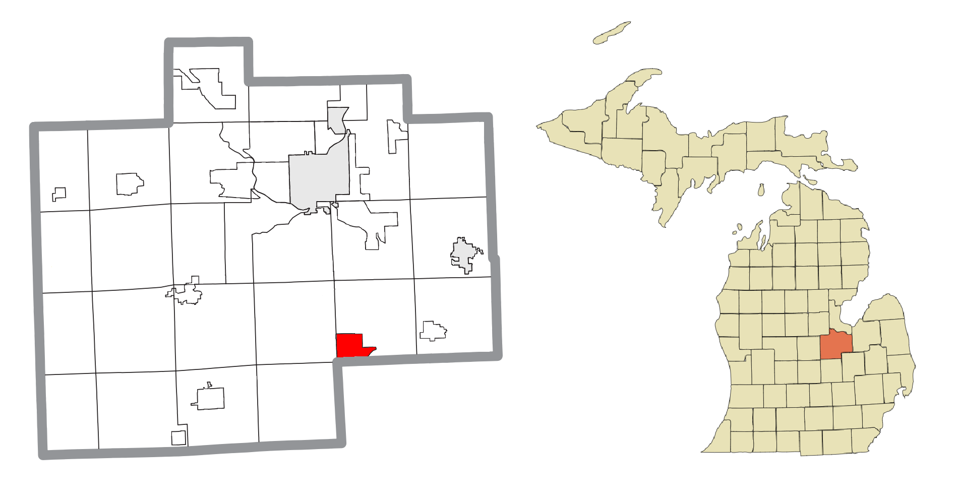 Burt, MI